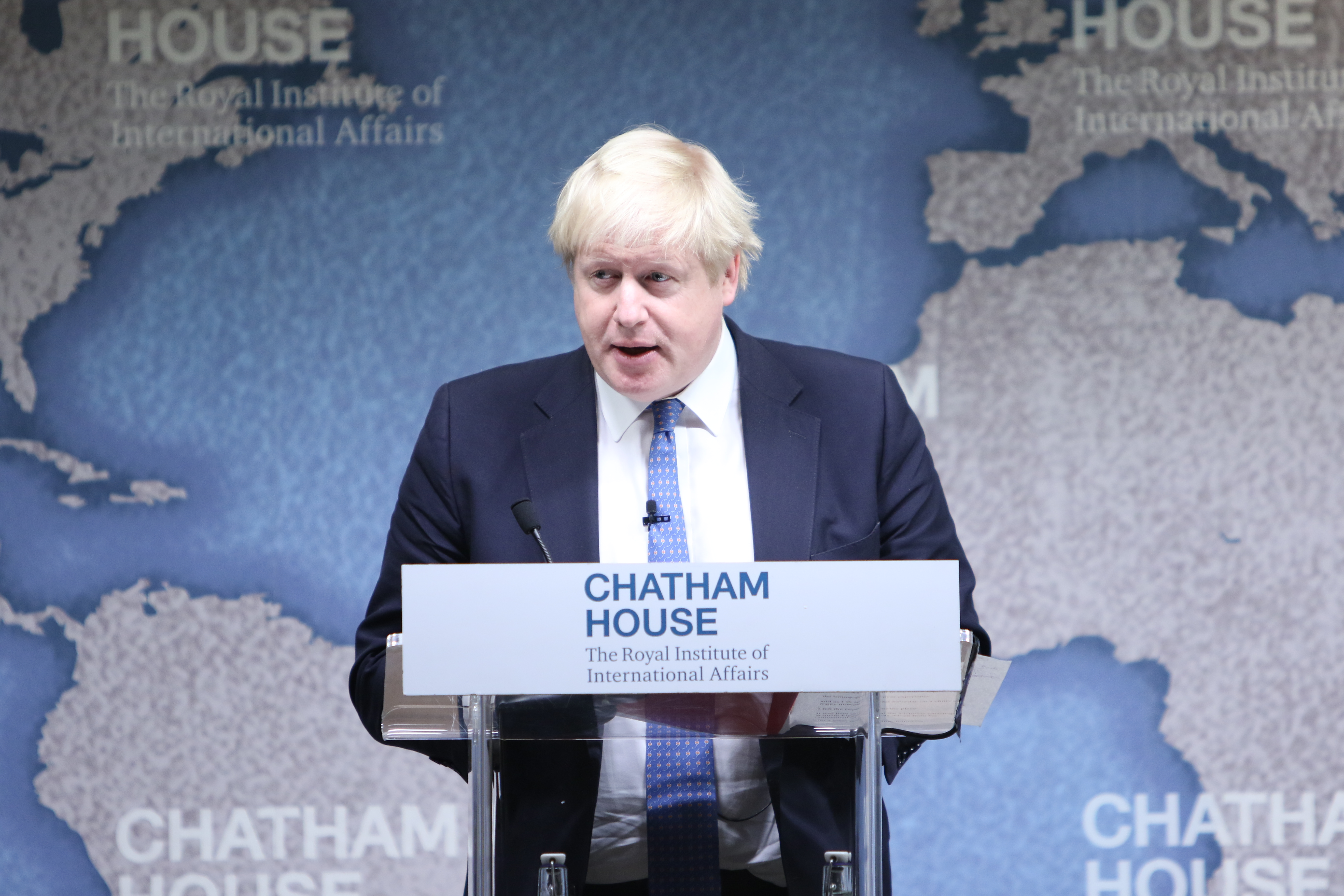 Foreign Secretary Boris Johnson speaking at Chatham House in London, 2 December 2016. Read more